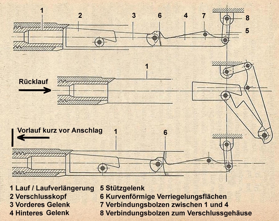 Tb 41 Furrer Verschluss